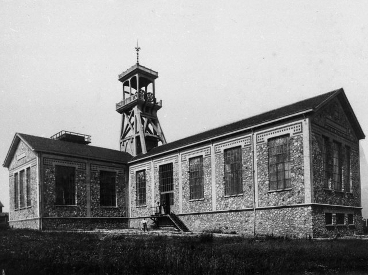 Coalpit n° 11 bis, Compagnie des mines de Lens, Liévin, Pas-de-Calais, France.